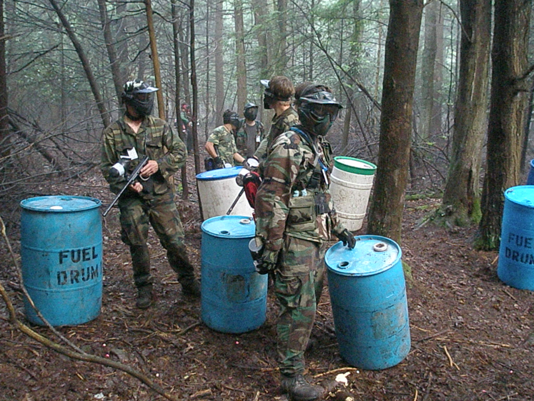 Skirmish USA's Invasion of Normandy paintball scenario game. Photo depicts scenario players on a mission to earn points for their team. For this particular scenario game, points were awarded based on how long teams could hold "fuel dumps," which represented more resources available to a team. Props labeled as Fuel Barrels could be carried on or off the field by players, to and from specified fuel dumps on the field, to earn more points. When using these props, the writers / producers of the scenario would design the flow of the game to provoke firefights. For instance, players on the German team would be given a mission to carry fuel barrels out to a given fuel dump and defend them for a set amount of time. A mission would then be given to the opposing team (the Allies) that would have them searching that area for enemy activity.